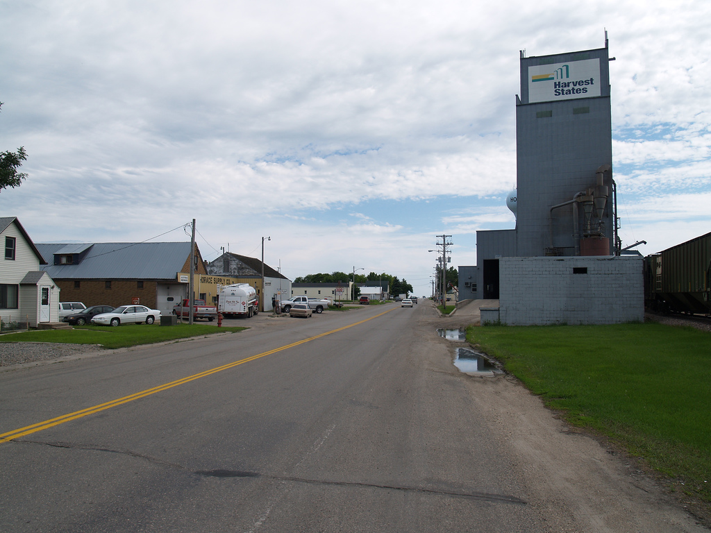 Horace, North Dakota. From .